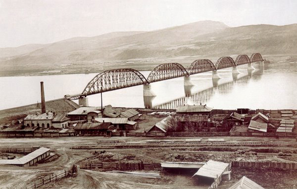 Railway bridge over Yenisei in Krasnoyarsk, Russia